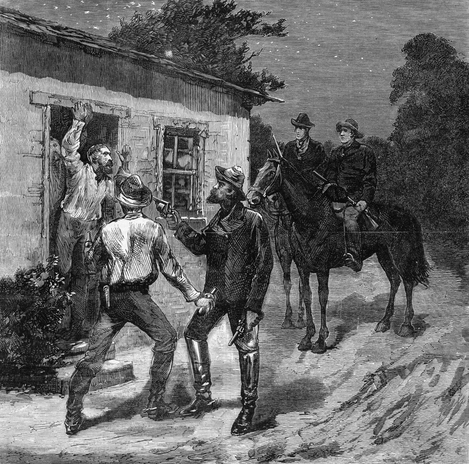 The Kelly gang at the Jerilderie Police Station.